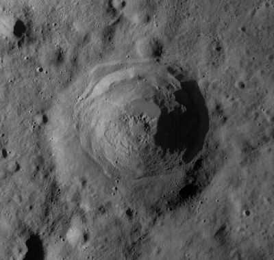 LROC WAC image No. M130904717ME